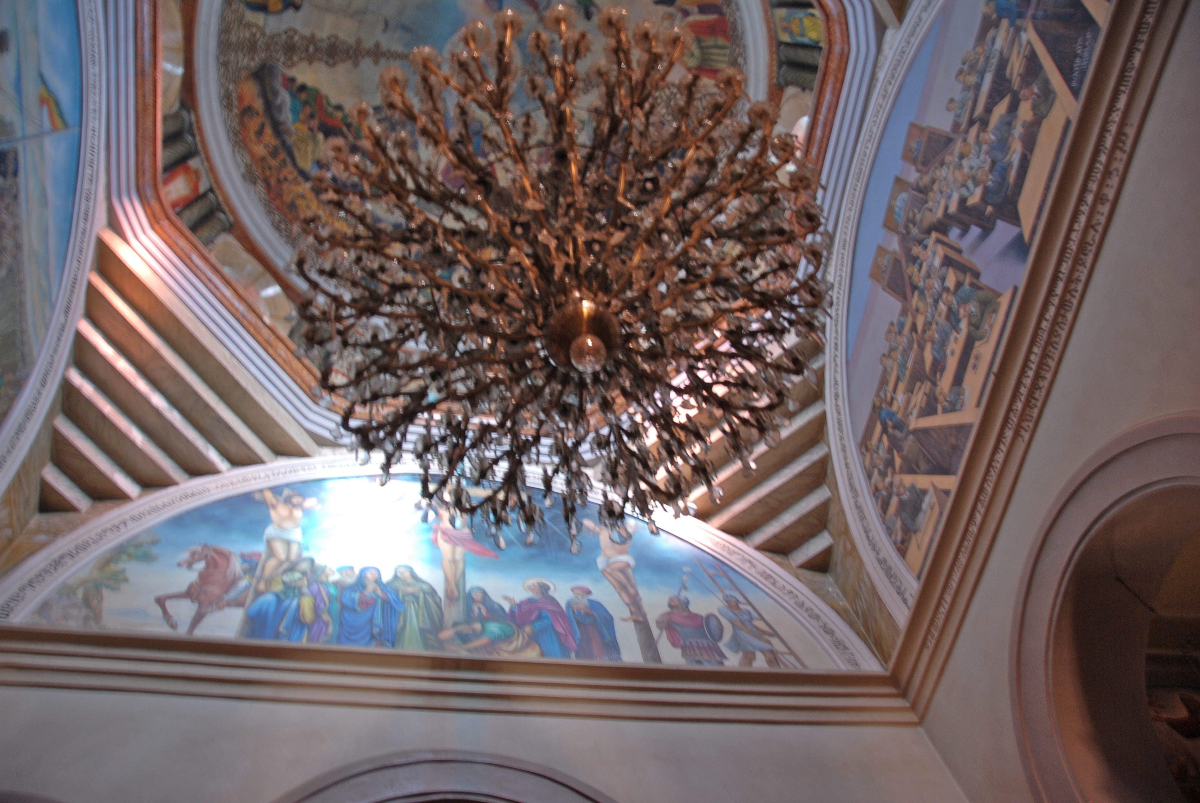 Trinity Cathedral